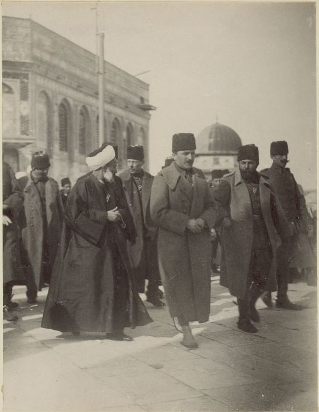 Enver Pasha visiting the Mosque accompanied by Jamal [Cemal] Pasha [Dome of the Rock, Jerusalem]